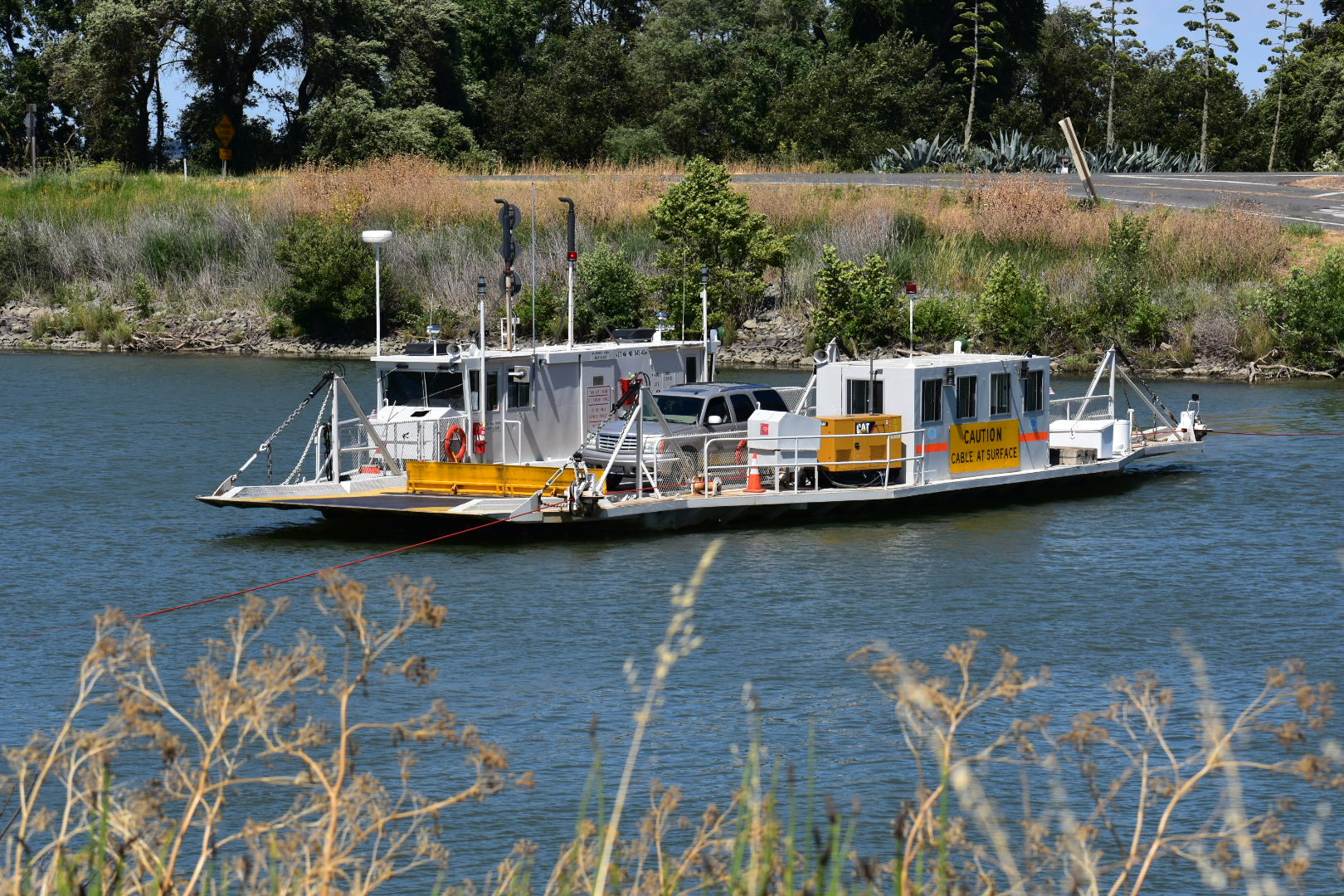 The Howard Landing Ferry to Ryer Island. Photo by Jim Heaphy.